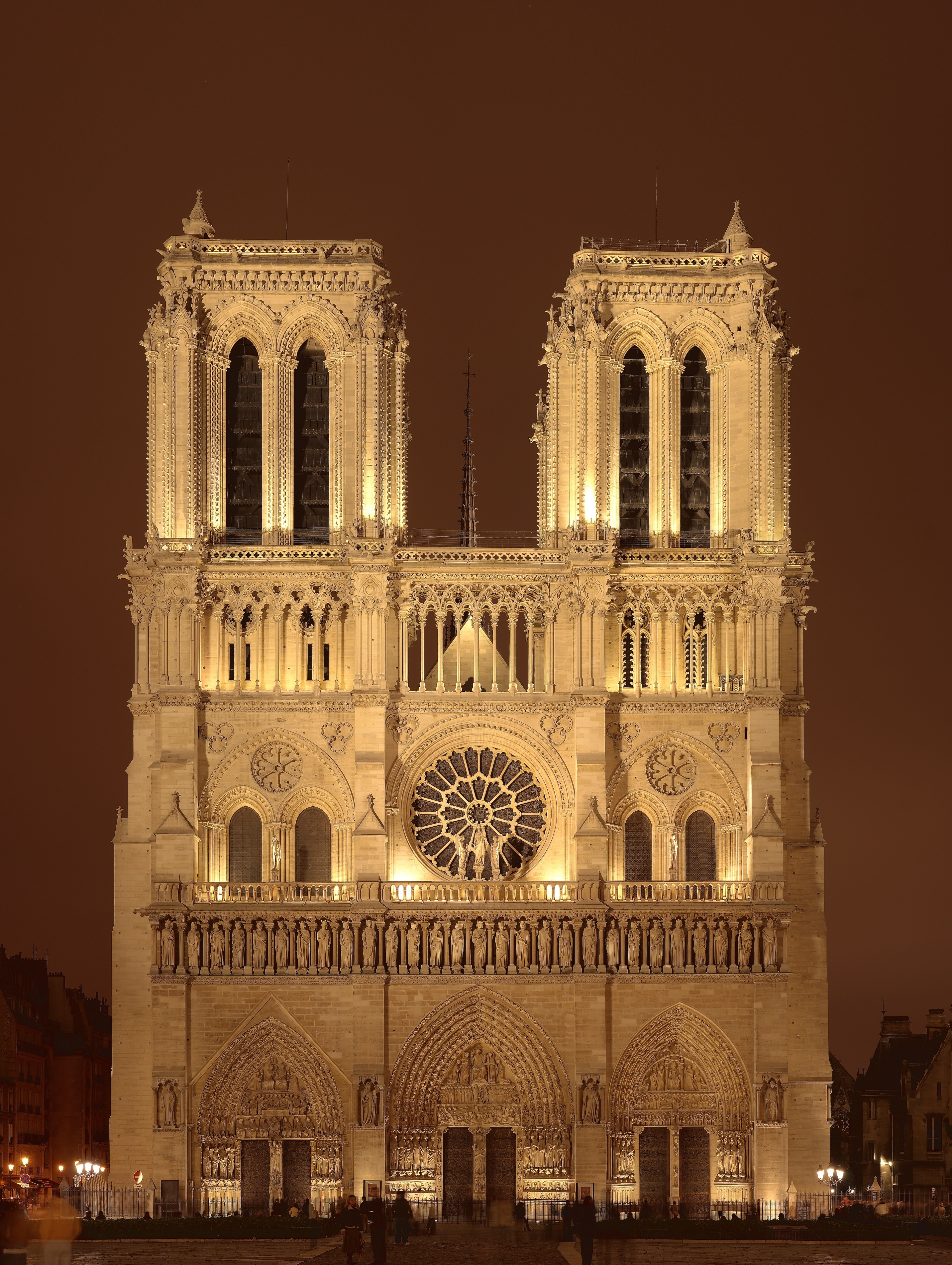 A night sight of the west facade of Notre Dame de Paris cathedral on the Île de la Cité island in Paris, France.